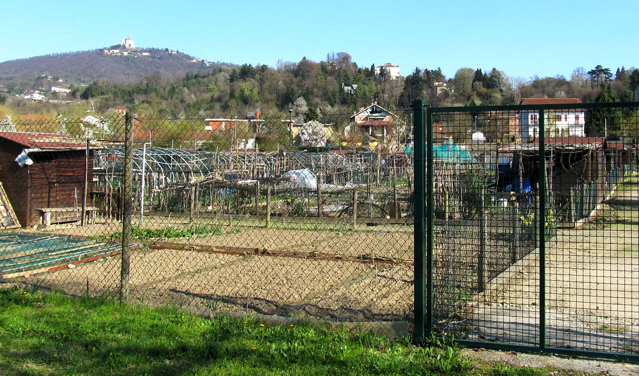 Parco del Meisino (Turin, Italy): urban gardens